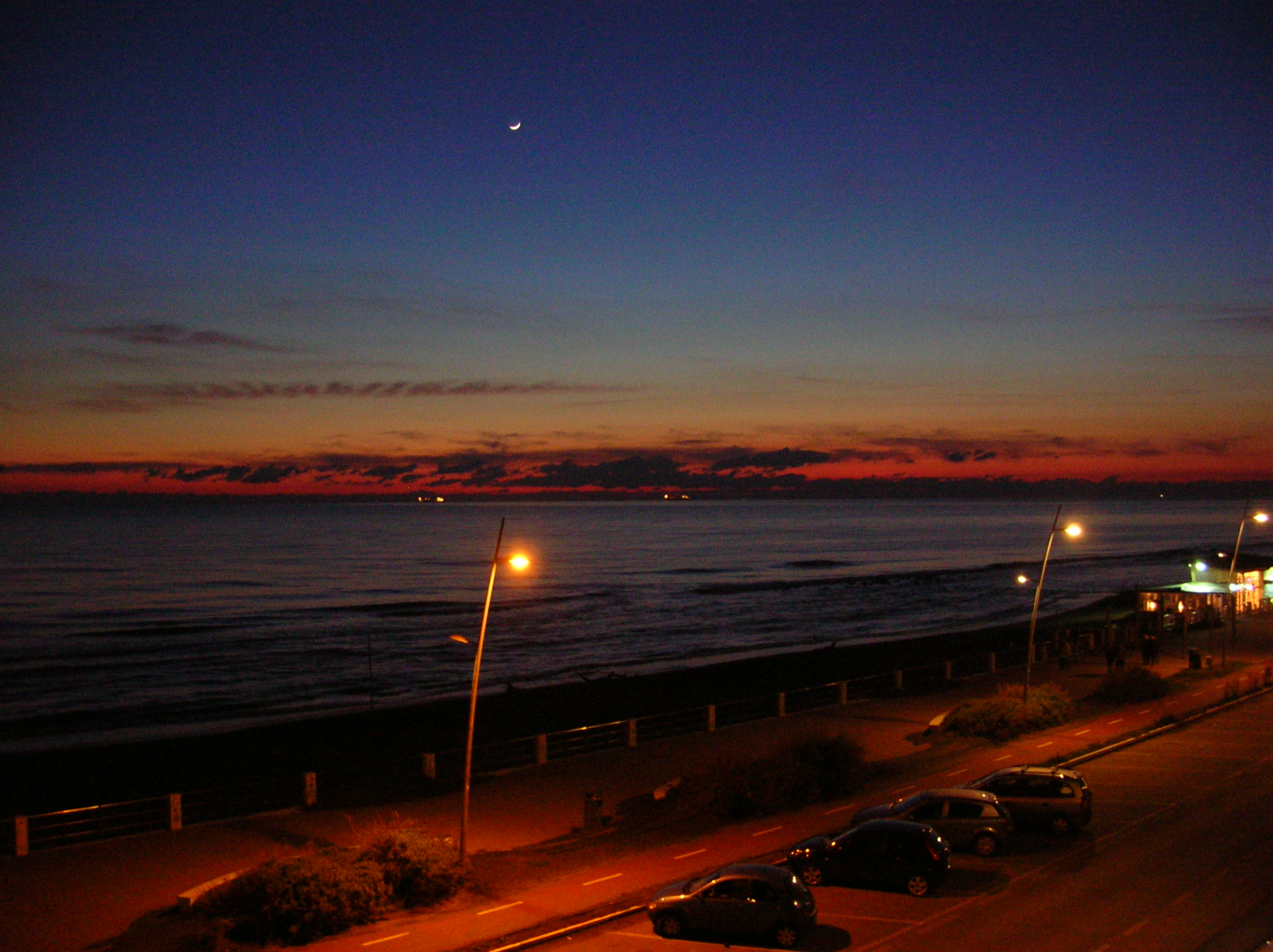 Ostia, Lido di Roma - Winter Twilight